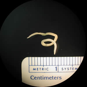 Pseudoterranova decipiens larva